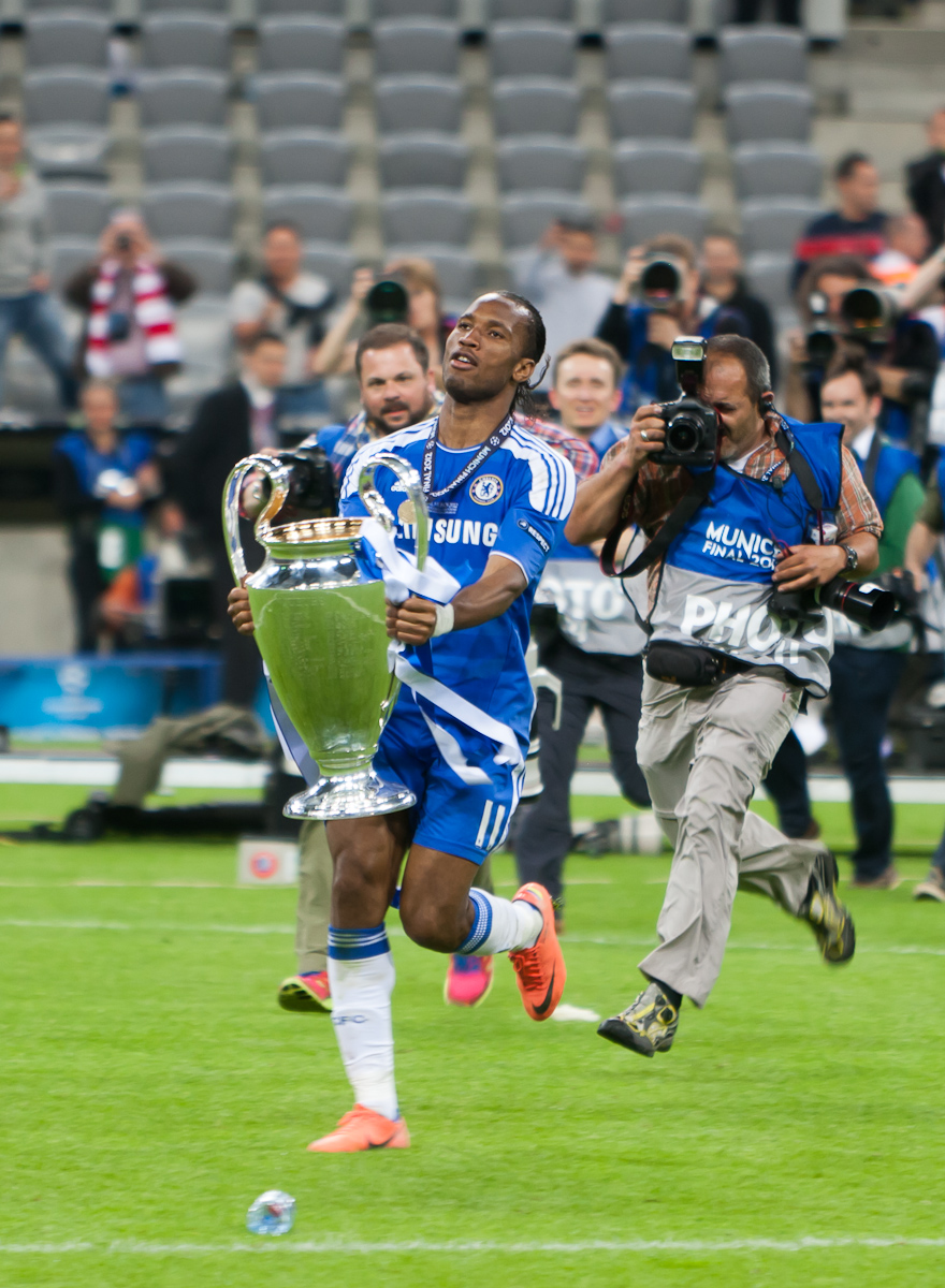 Drogba with Cup